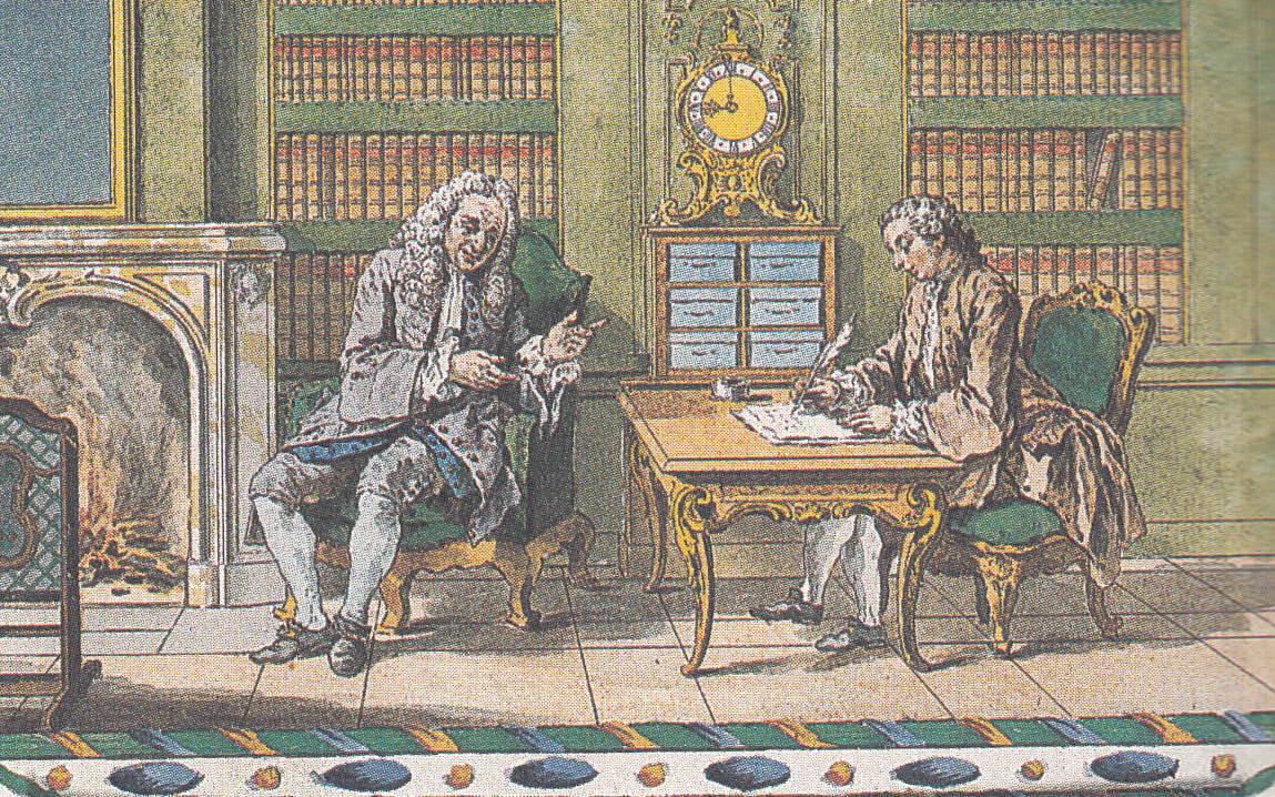 The old man (Carl Gustaf Tessin) and his secretary